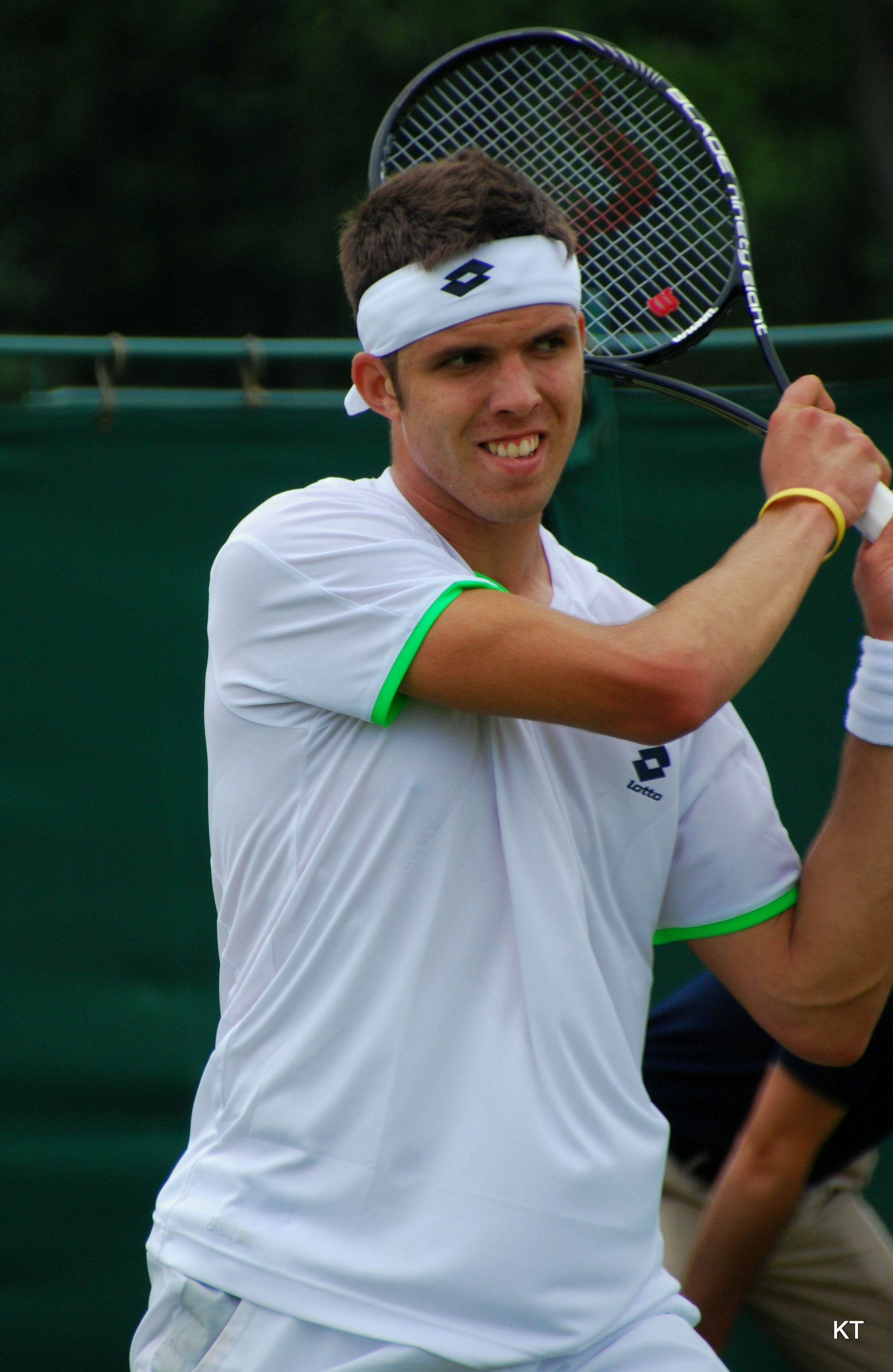 Former junior world no.1 and 5th seed Jiri Vesely during his first round match with John-Patrick Smith, which he won 7-6, 6-3. He lost in round 2 to the experienced Dustin Brown. Day 1 of Wimbledon qualifying 2013. Jiri Vesely finished 2013 as the youngest player in the ATP top 100.